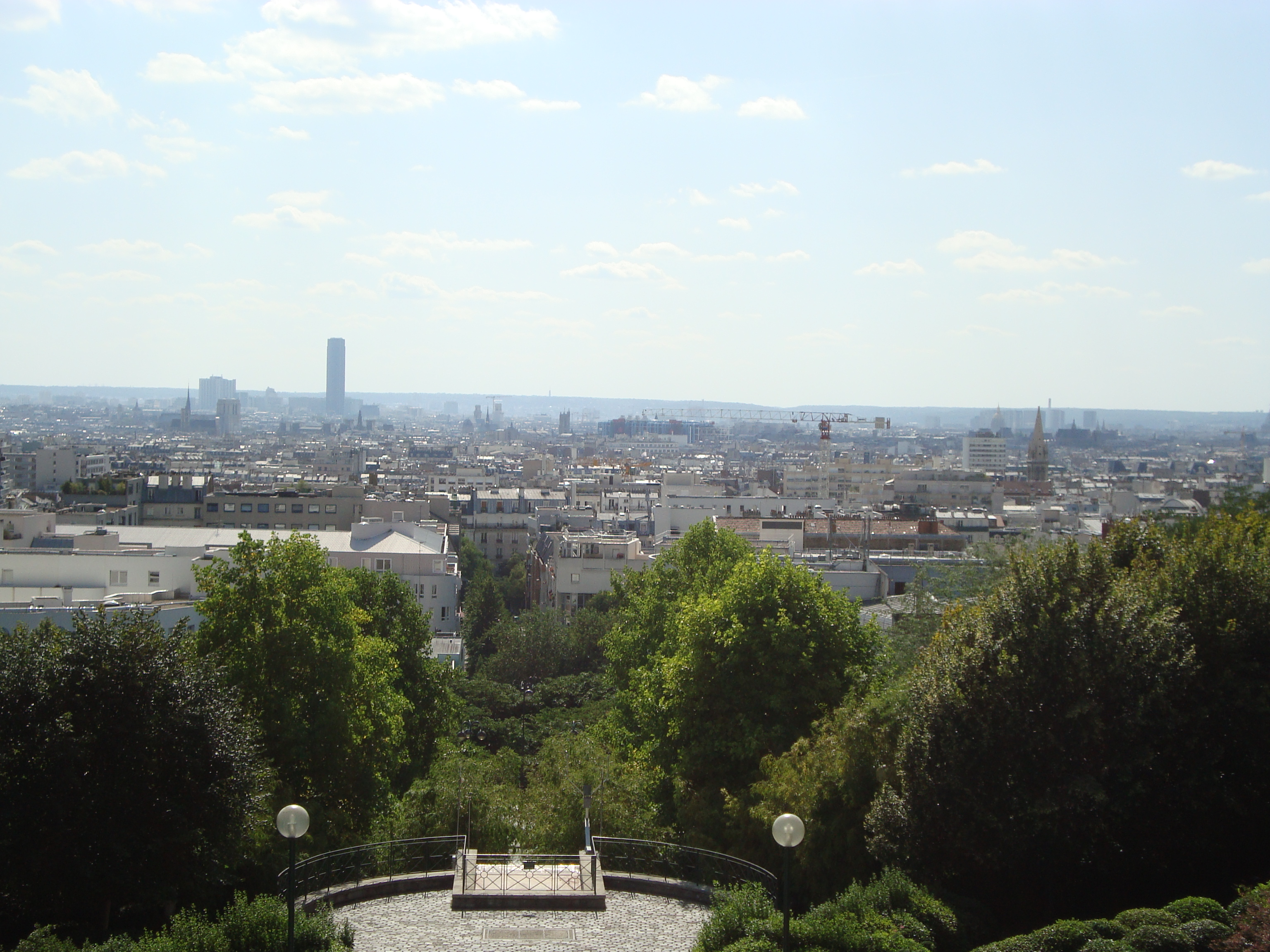 View of Paris (the Tour Montparnasse) from the Parc de Belleville